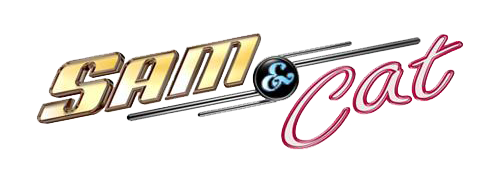 logo Sam & Cat